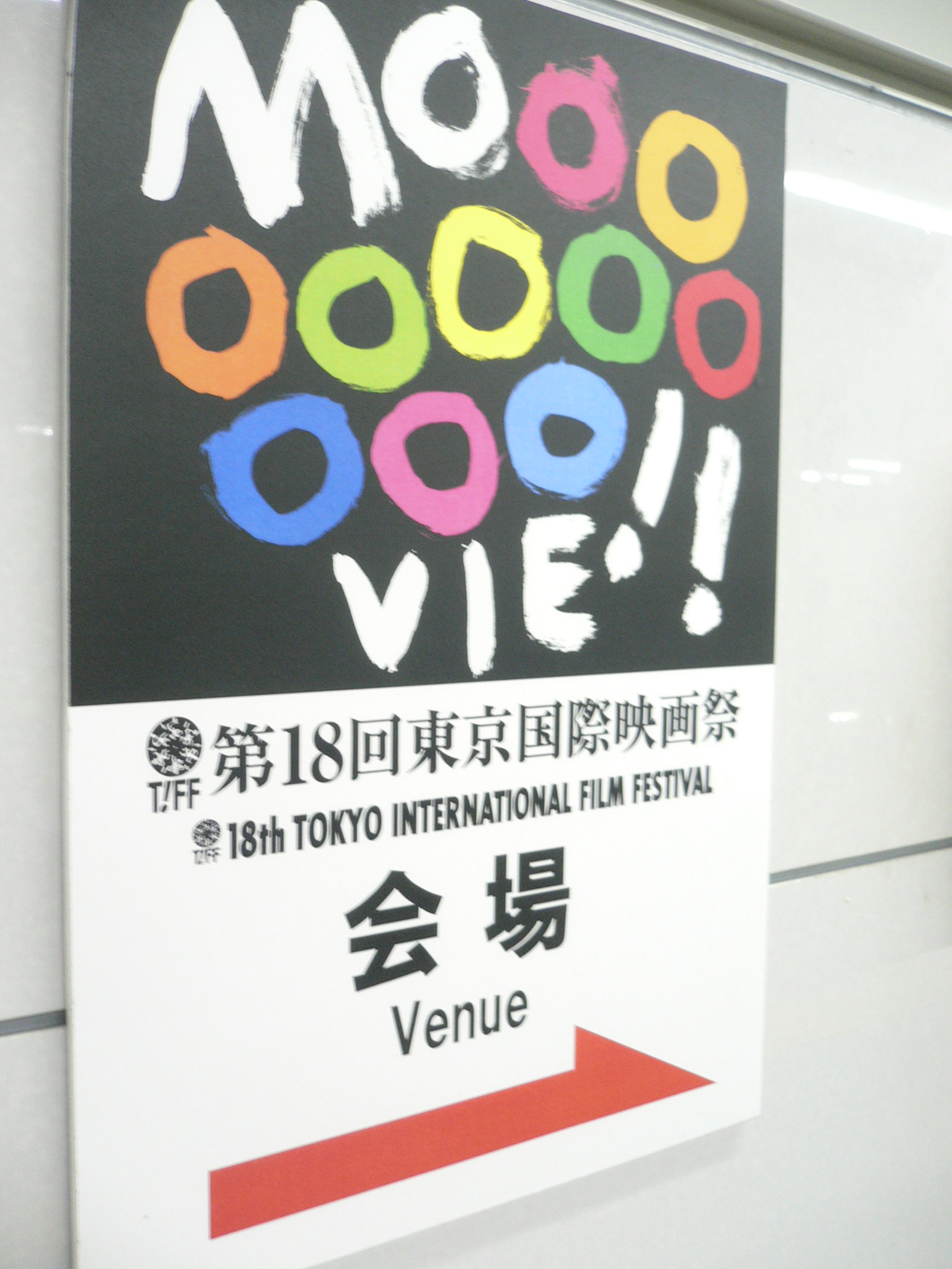 Roppongi Station (六本木駅), Minato W, Tokyō M.